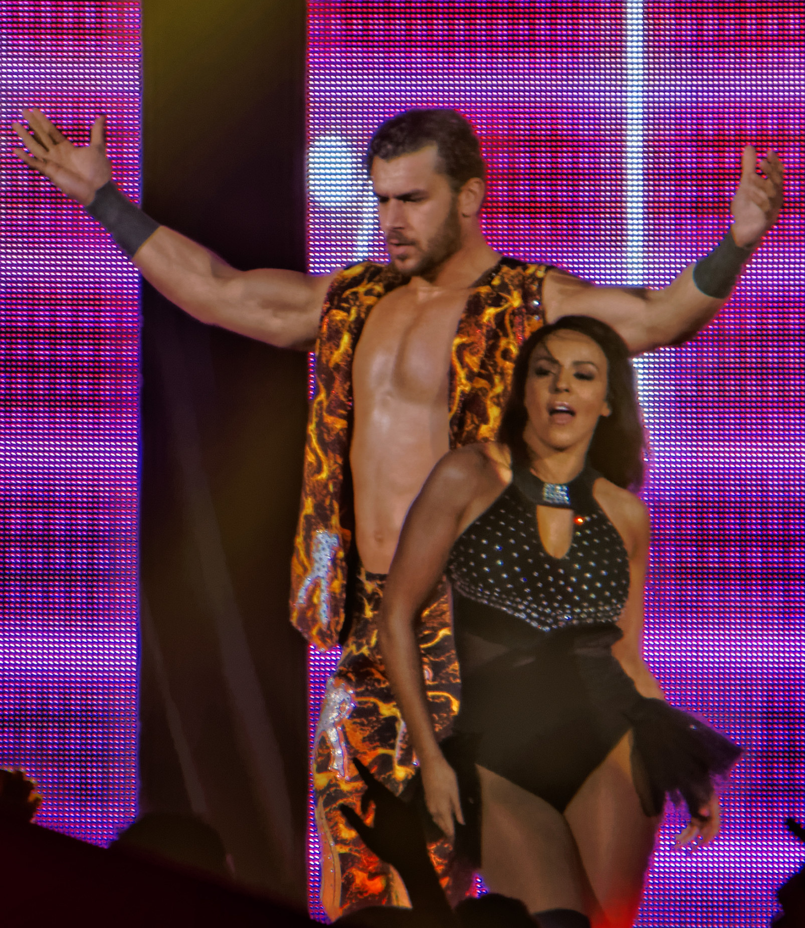 Fandango (left) and Layla at a WWE show in May 2014. Cropped from original image.